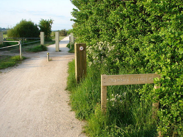 Where The Greenway long distance path cuts through the public footpath at Chambers Crossing Halt railway station. Or vice versa.